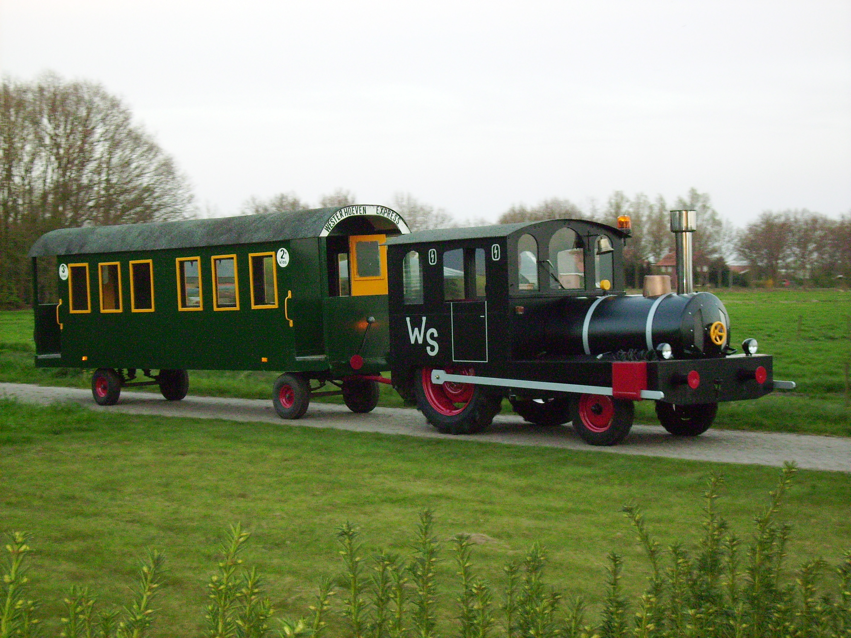 Description Bello II Date24 January 2007SourceOwn workAuthorMichiel WiltvankPermission (Reusing this file) Buurtvereniging Westerhoeve Bello II